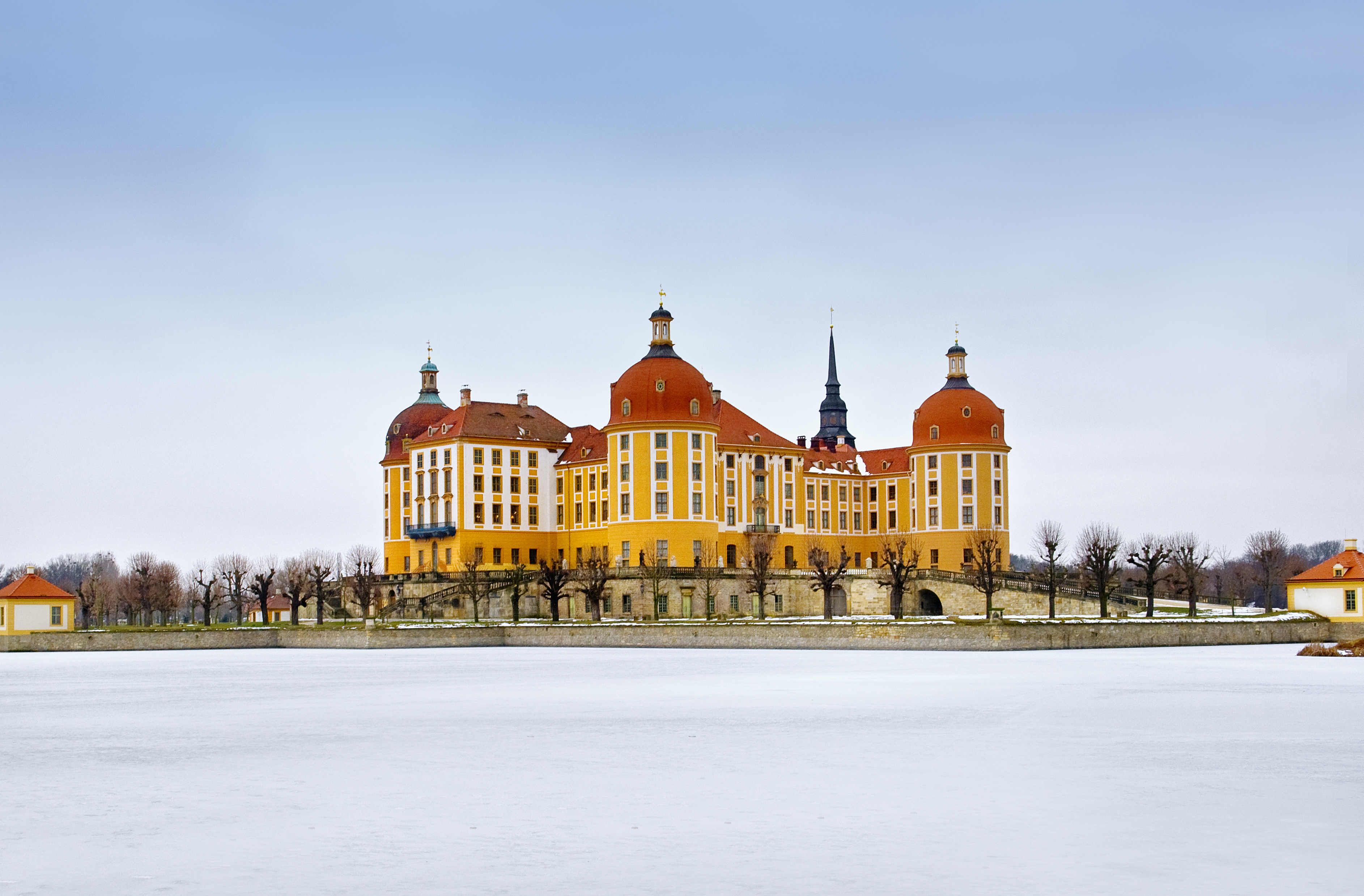 The Castle of Moritzburg